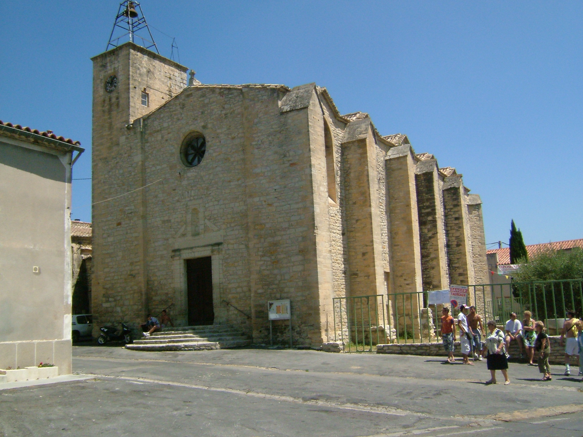 The catholic church at Congénies. This was taken at the time of the bull running so bullgates can be seen in front of the church.